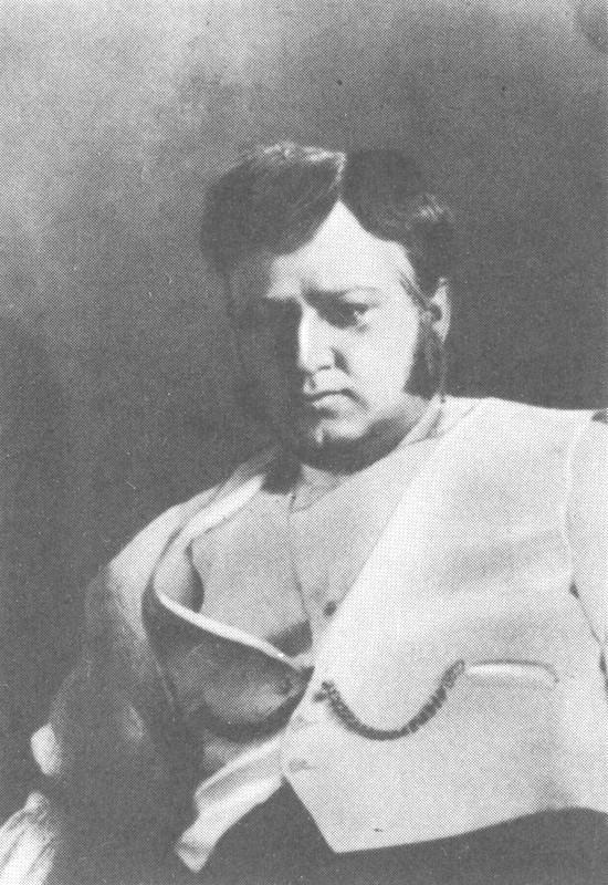 «Flood» (?), performance by Berger, 1915